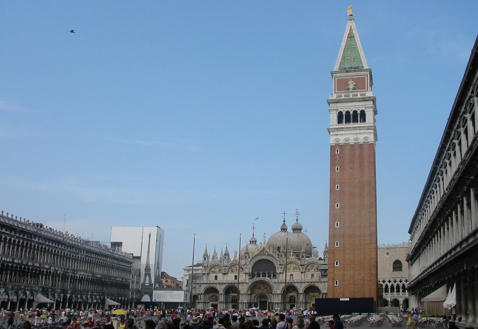 Piazza San Marco (Venice)